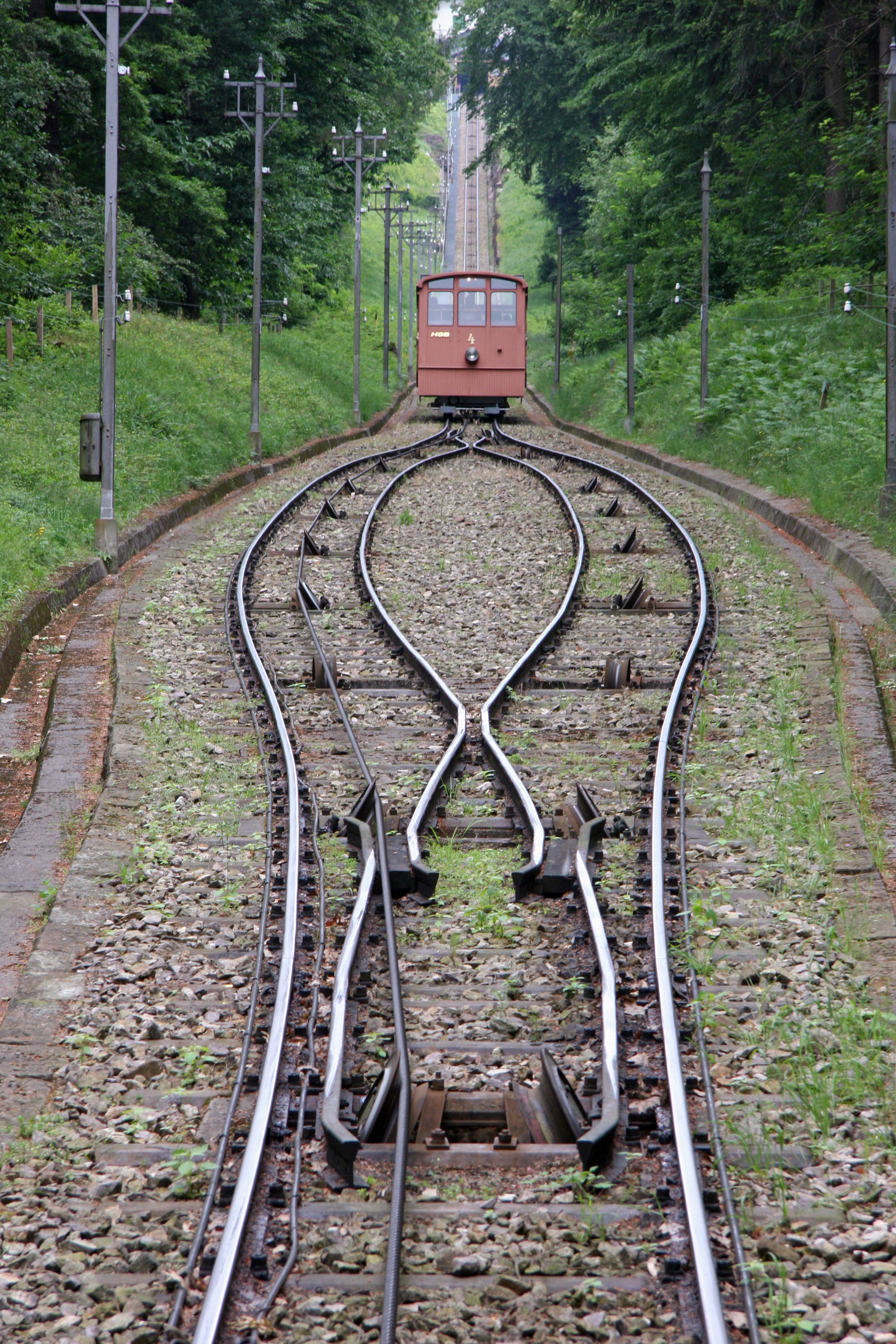 If, like me, you were wondering how the wheels negotiate the inner tracks, this gives the answer.